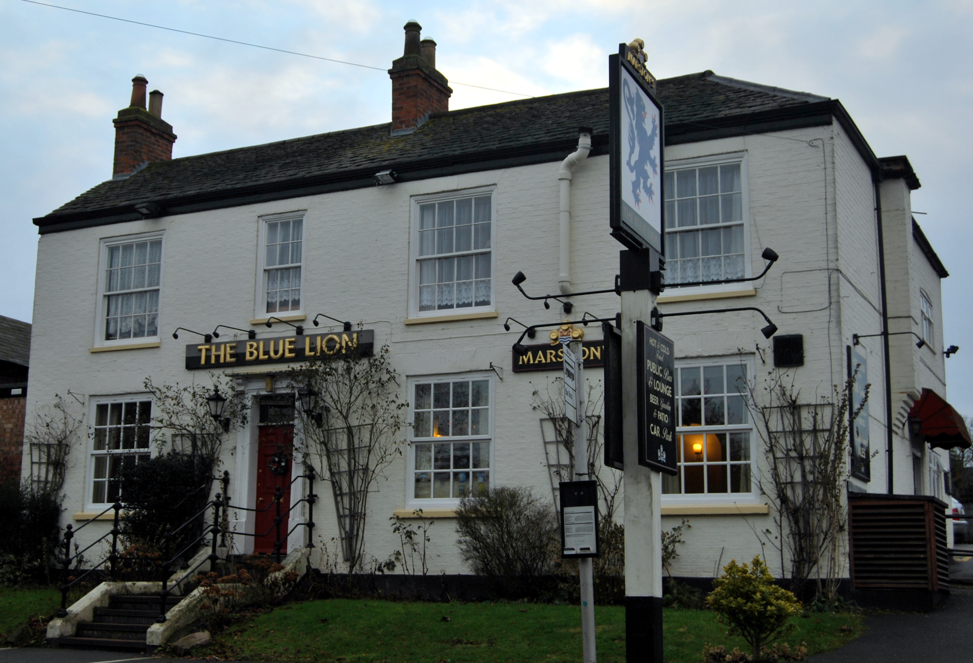 Thrussington, Leicestershire. The Blue Lion Pub. There is another pub in the village but cars obscure it.